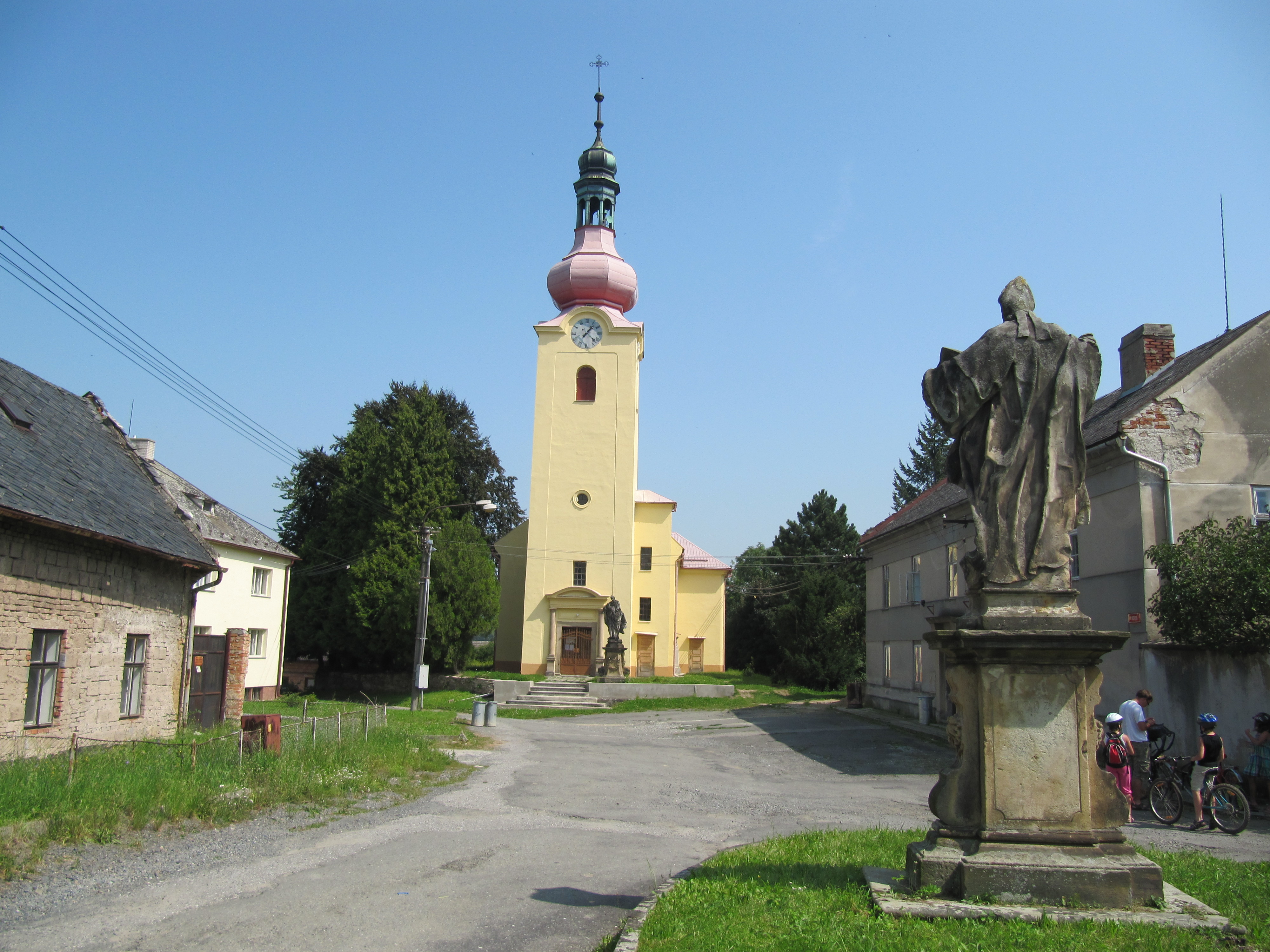 Přerov, Czech Republic, part Penčice. Church of Sts. Peter and Paul from the years 1673-1675 in a later treatment, the statue of St.. Libor from 1736. This photograph was taken within the scope of the third year of the 'Czech Municipalities Photographs' grant.